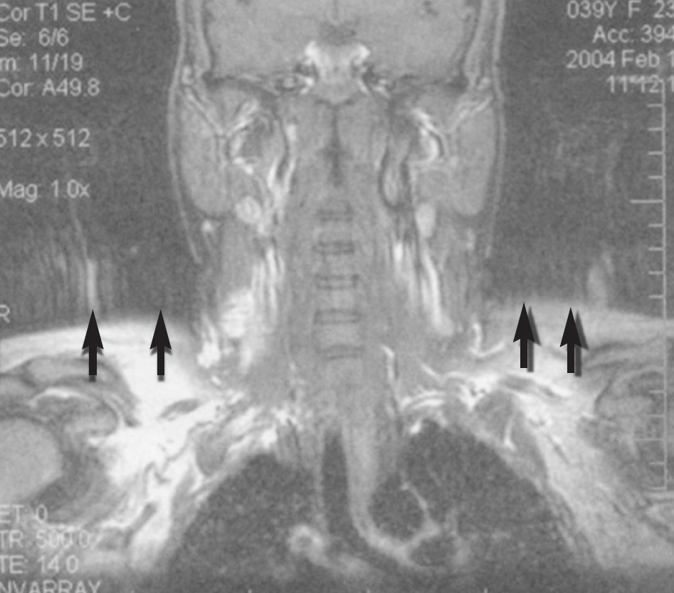 MRI with motion artifacts. For context, see: MRI artifact